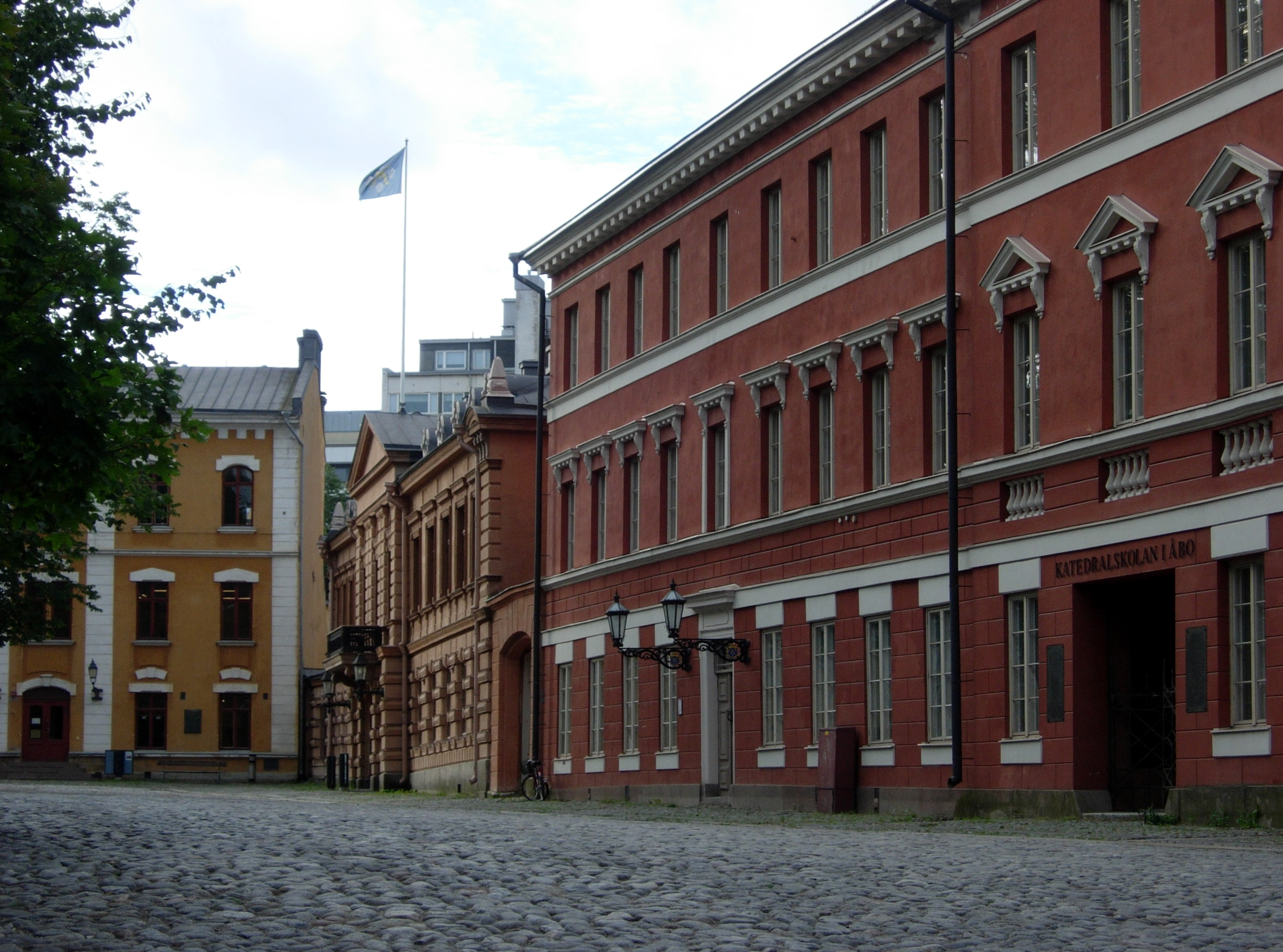 Old Great Square of Turku. Buildings from right to left: The Cathedral School, Brinkkala Mansion (from the balcony of which Christmas peace is proclamed) and the Old Town Hall